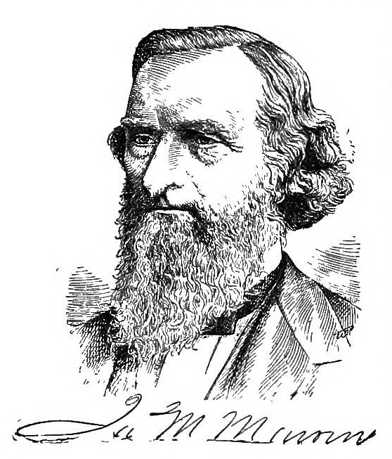 James Madison Marvin